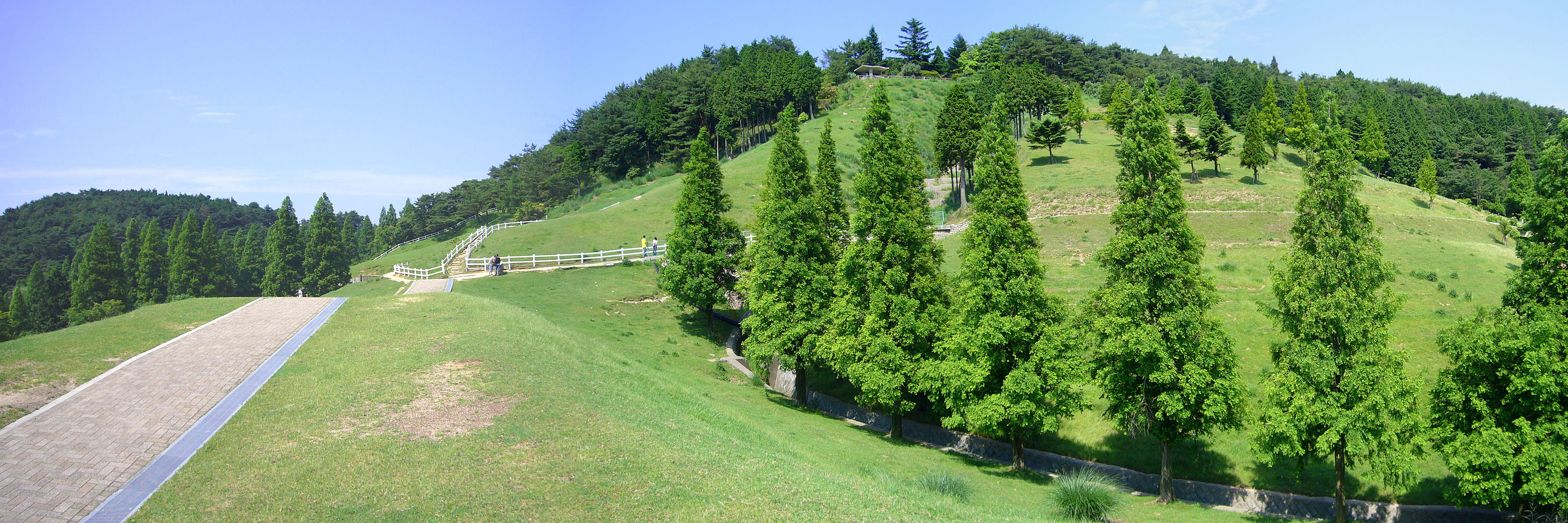 Rokkosan Pasture in Kobe, Hyogo prefecture, Japan